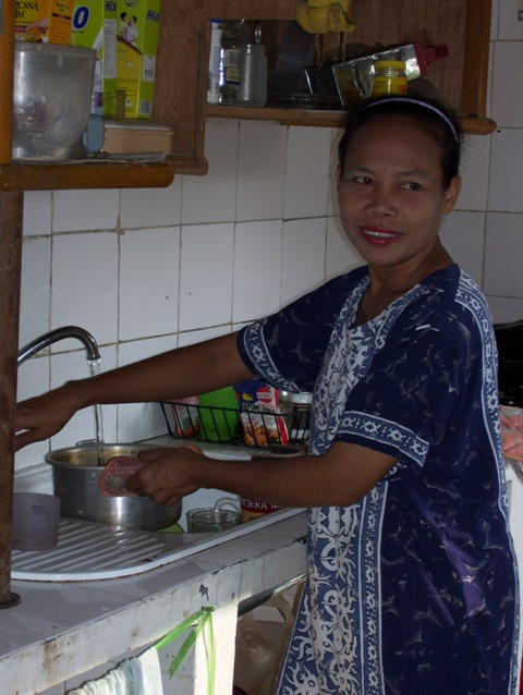 servant working in the kitchen. Jakarta, Indonesia 2007